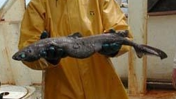 Black dogfish (Centroscyllium fabricii)